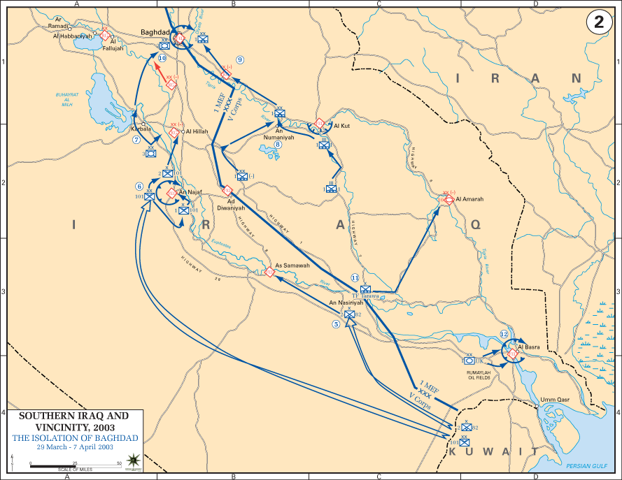 A map of the 2003 invasion of Iraq from March 29 to April 7. For a legend see here: [1]